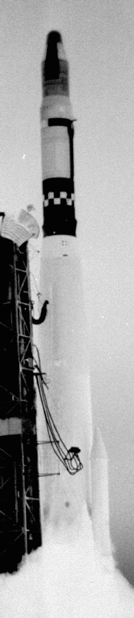 Launch of the Thor SLV-2A Agena D rocket with military surveillance satellite Corona 98, KH-4A series, on 17th of August 1965.